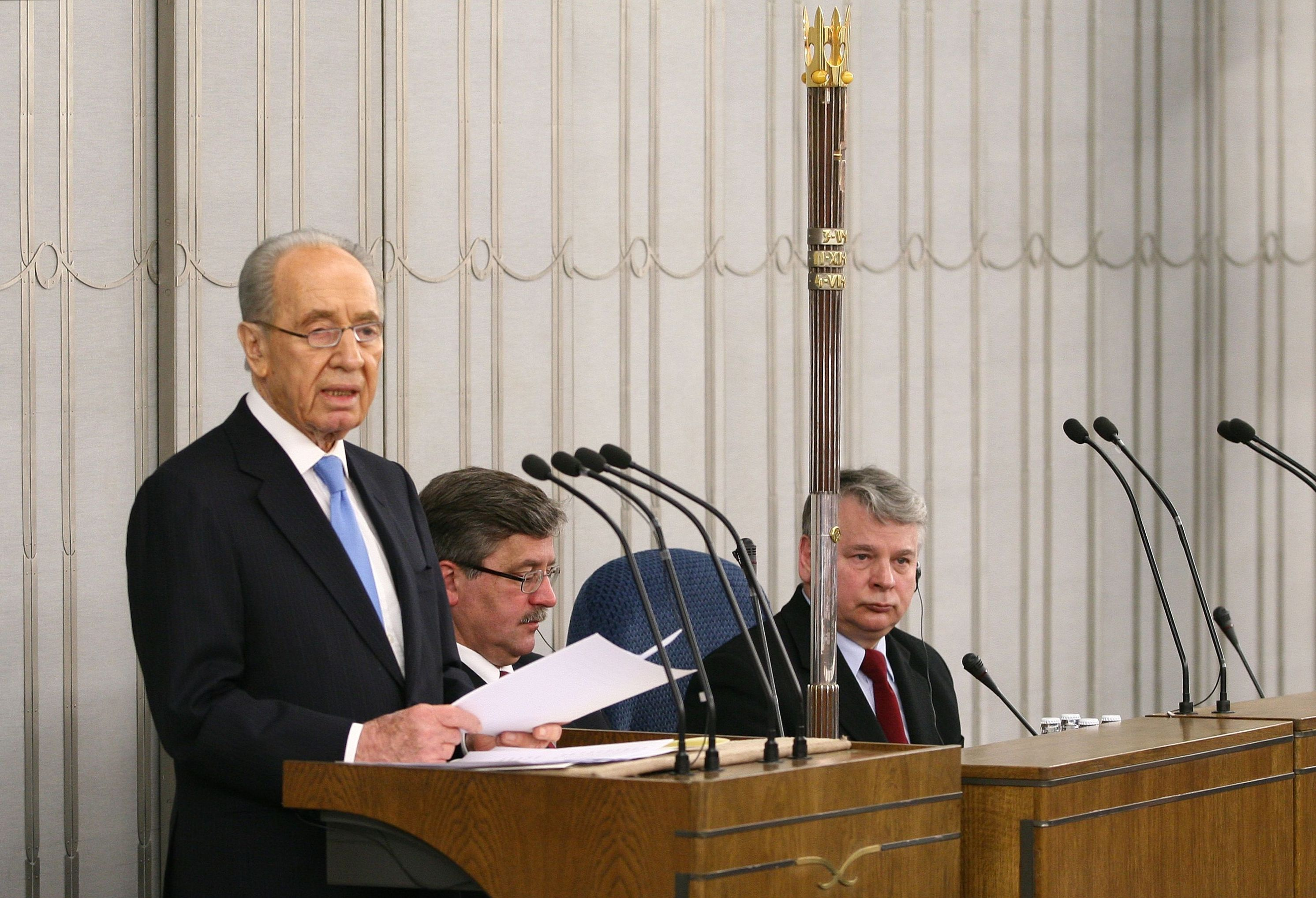 President of Israel Shimon Peres. Joint parliamentary assembly of deputies and senators in the Polish Senate